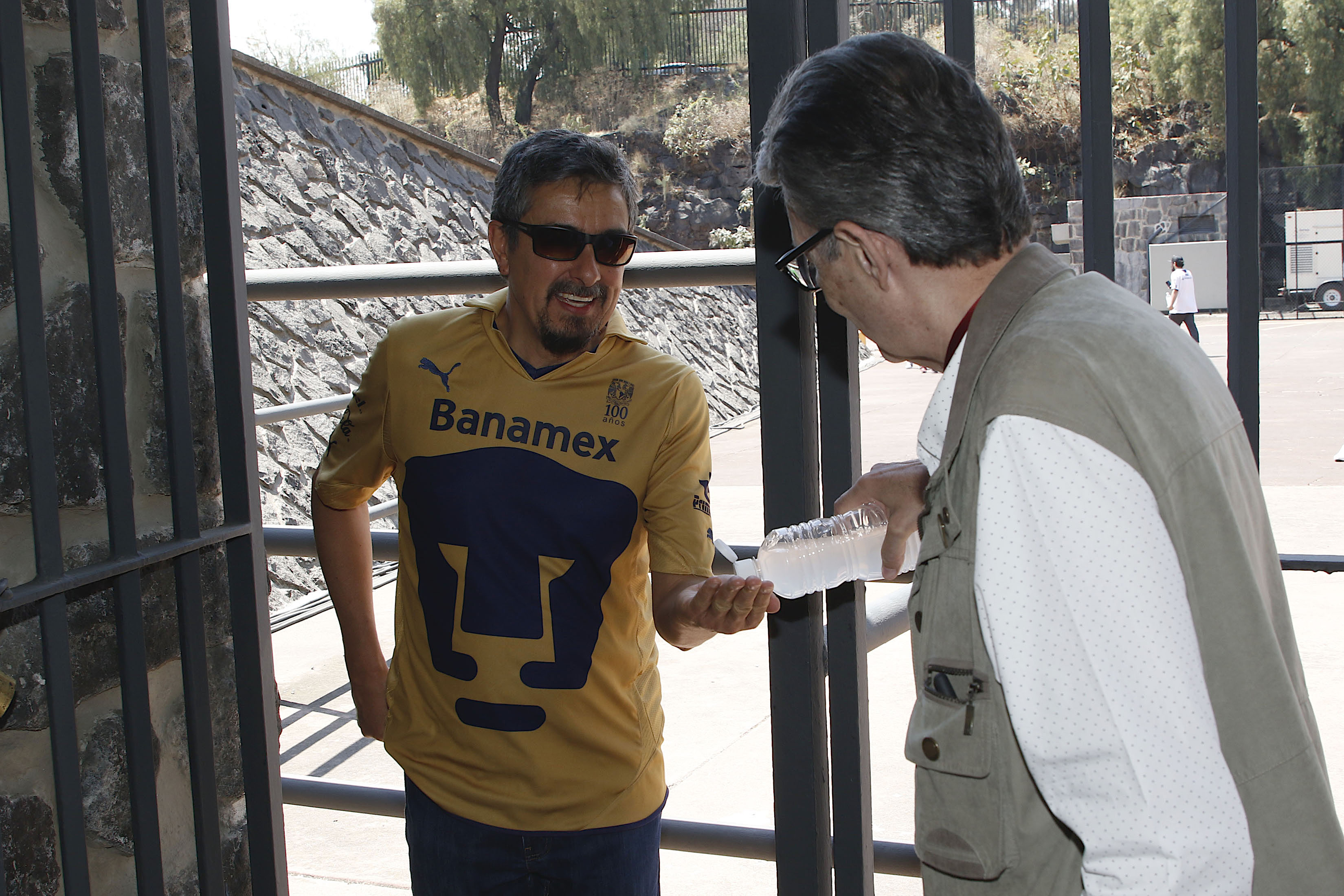 Sábado 14 de marzo de 2020Como parte de las actividades de Tiempo de Mujeres. Festival por la Igualdad, se realizó en el Estadio Olímpico México 68 de Ciudad Universitaria, el primer partido de la Liga Femenil MX entre los equipos Pumas de la UNAM y Cruz Azul. Durante el acceso del público al estadio, personal de la Secretaría de Cultura de la Ciudad de México, encabezados por su titular, José Alfonso Suárez del Real y Aguilera, se dieron a la tarea de suministrar gel antibacterial.Fotografía: Milton Martínez / Secretaría de Cultura de la Ciudad de México